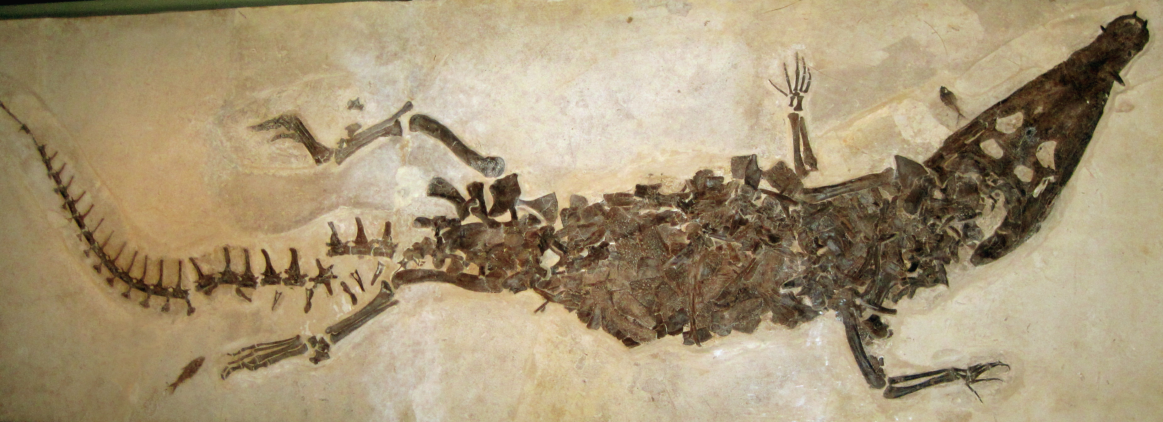 Borealosuchus wilsoni (Mook, 1959) fossil crocodilian in lacustrine marlstone from the Eocene of Wyoming, USA (public display, FMNH PR 1674, Field Museum of Natural History, Chicago, Illinois, USA). The Green River Formation of Utah-Colorado-Wyoming is famous for having vast oil shale deposits and for having exquisitely-preserved fossils. Fossil Butte National Monument in southwestern Wyoming preserves and displays some of these high-quality fossils. Leaves and fish are the most common large fossils in the Fossil Lake Basin of the Green River Fm. Classification: Animalia, Chordata, Vertebrata, Reptilia, Crocodyliformes, Neosuchia, Eusuchia, Crocodylia Stratigraphy: Fossil Butte Member, Green River Formation, upper Wasatchian Stage (Wa4)/Ypresian Stage/Lostcabinian, Lower Eocene Locality: Fossil Lake Basin, southwestern Wyoming, USA